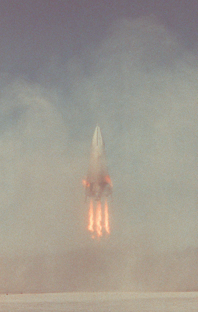 The Delta Clipper-Experimental Advanced (DC-XA) is a single-stage-to-orbit, vertical takeoff / vertical landing launch vehicle concept, whose development is geared to significantly reduce launch cost and will provide a test bed for NASA Reusable Launch Vehicle (RLV) technology. This photograph shows the descending vehicle landing during the first successful test flight at White Sands Missile Range, New Mexico.